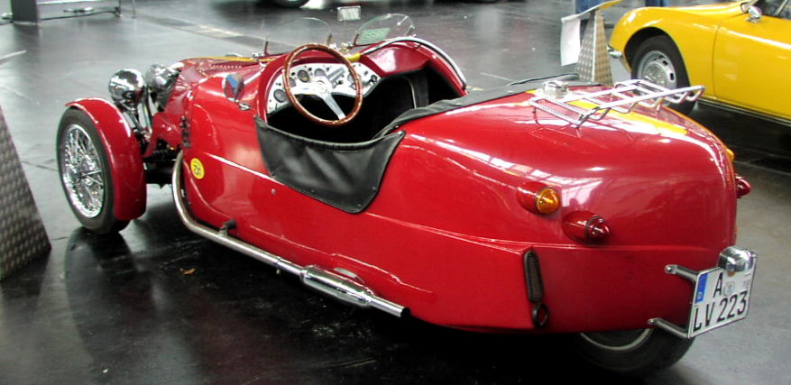 Lomax 223 (with Moto Guzzi engine)